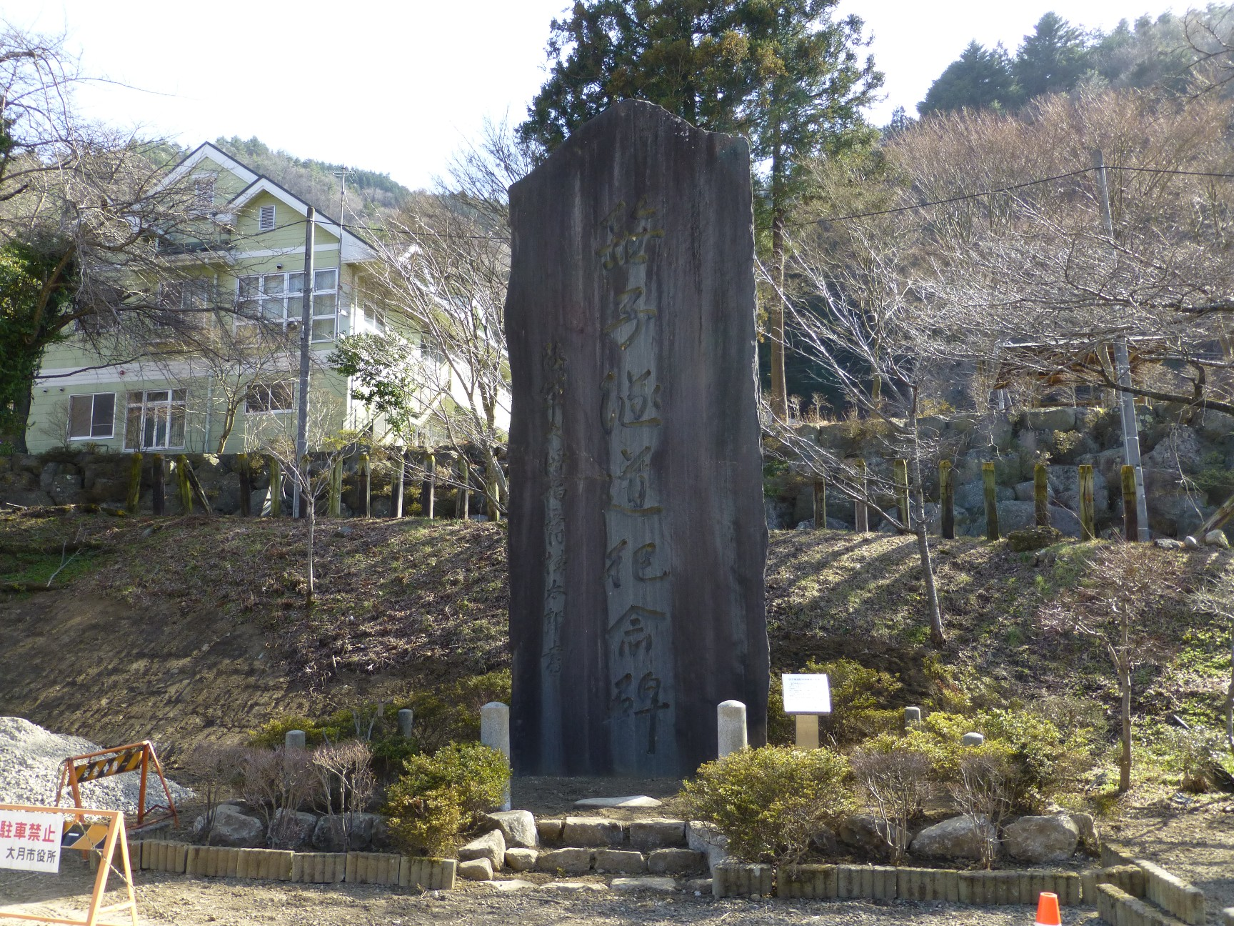 A memorial stone that commemorates the opening of Sasago railway tunnel. The epigraph was written by Taro Katsura. Originally built at Maiduru park in Kofu city in 1905, and moved to the front of Sasago railway station in 1993.